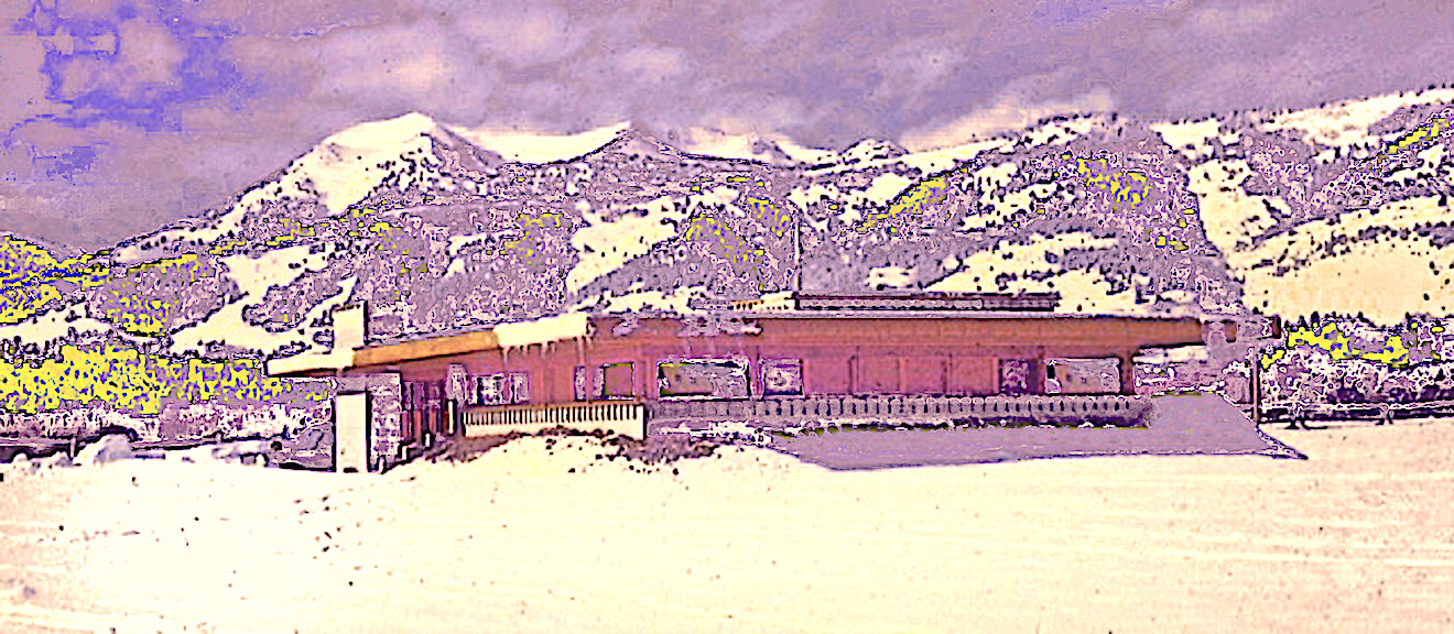 File represents a dwelling in Jackson Hole, late 1960s